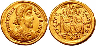 Eugenius. AD 392-394. AV Solidus (4.44 g). Mediolanum (Milan) mint. Struck 393-394 AD. D N EVGENI-VS P F AVG, pearl-diademed, draped, and cuirassed bust right VICTOR-IA AVGG, Eugenius and Theodosius I, both nimbate, seated facing, holding globe between them; behind and between, Victory standing front with outspread wings, palm below; M-D/COM. RIC IX 28; Depeyrot 11/1; Cohen 6. Good VF, light smoothing in fields and on face. Very rare. From the William H. Williams Collection. Ex Jean Elsen 57 (6 March 1999), lot 1914; Leu 65 (21-22 May 1996), lot 512.